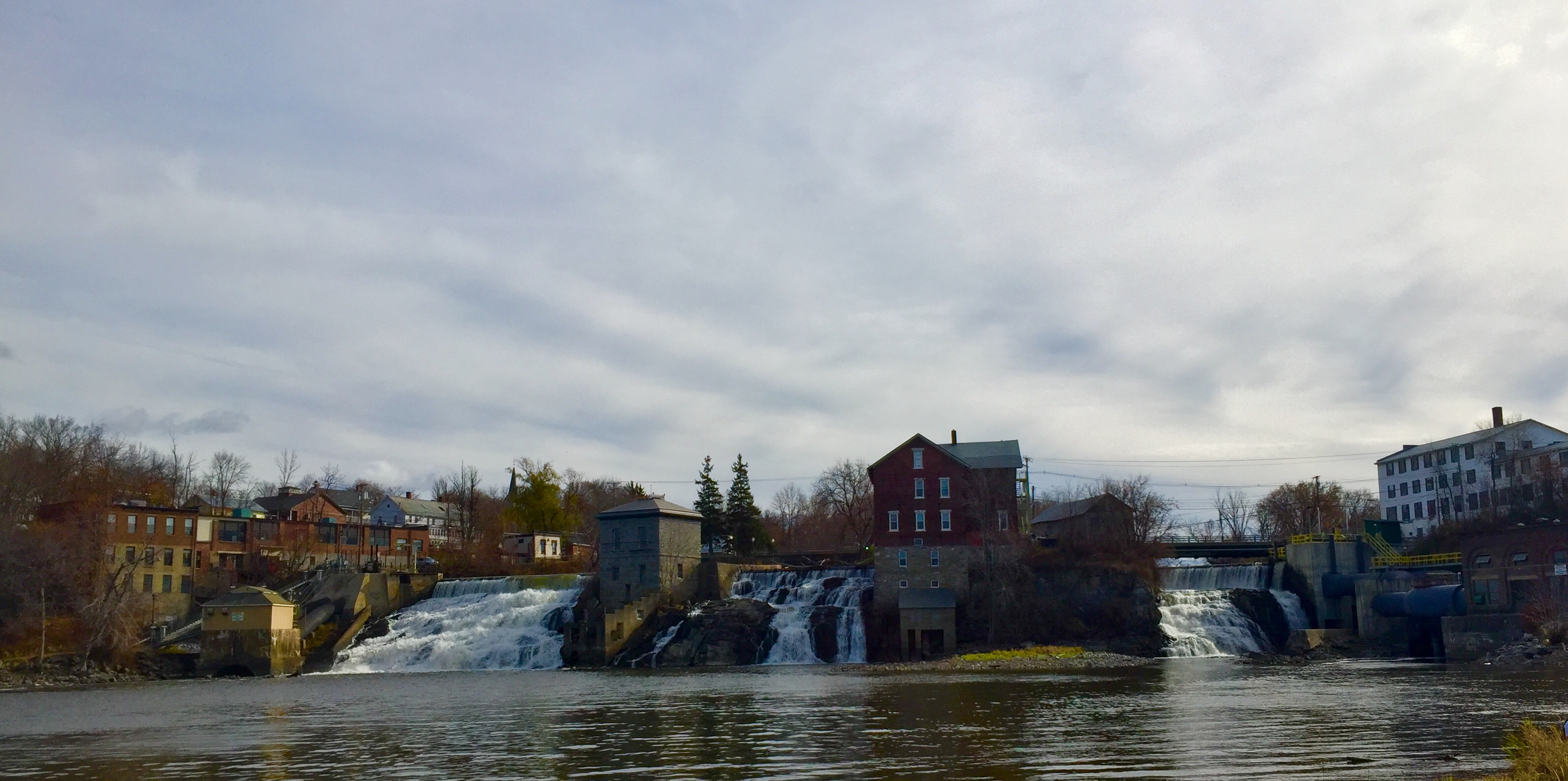 View of downtown Vergennes from Otter Creek